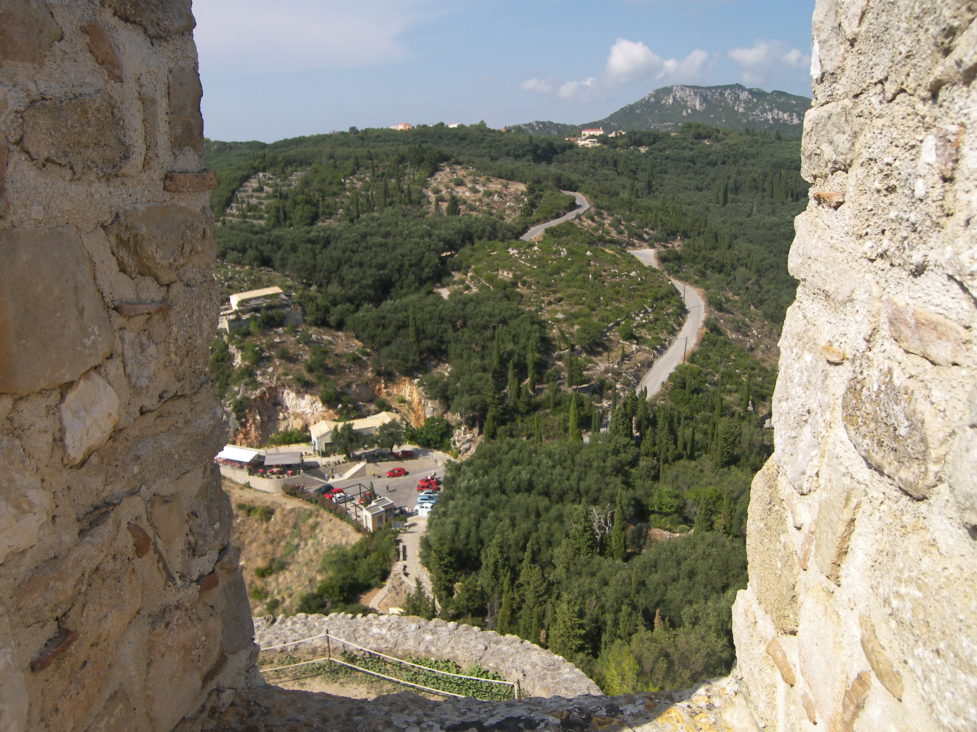 Please see filename File:Angelokastro Fields.JPG